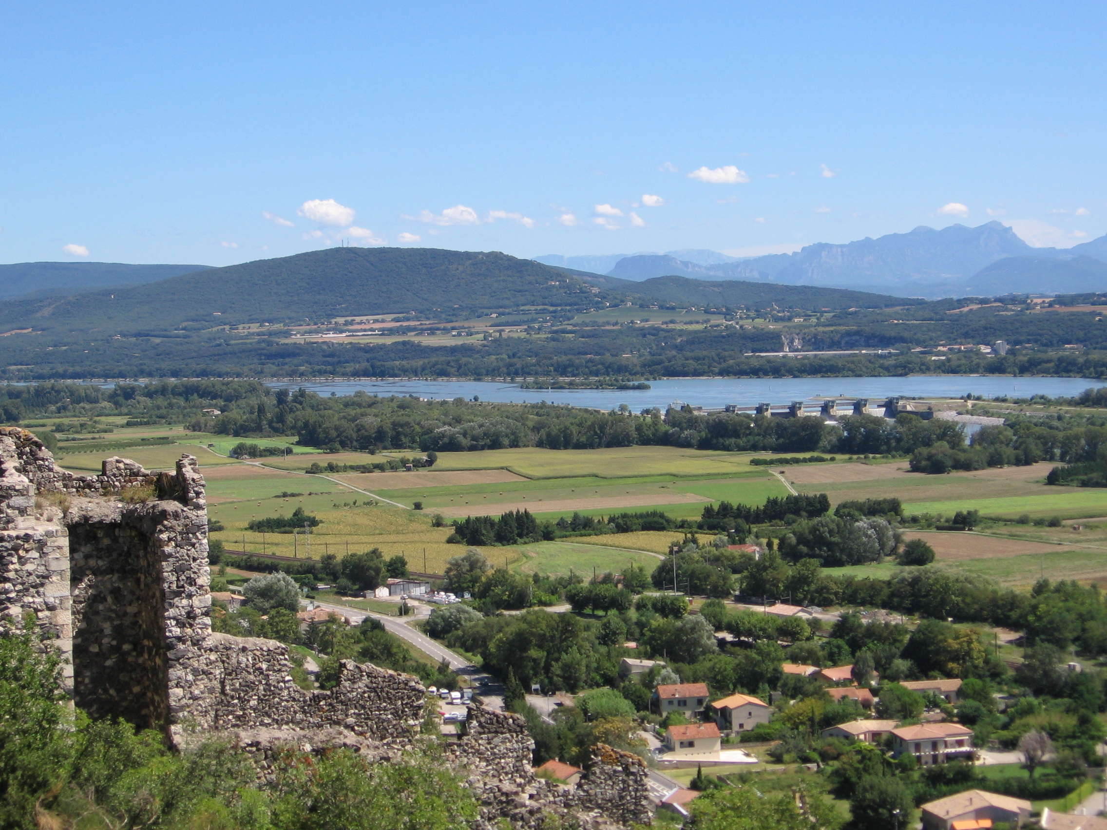 View Rhone river near Montelimar, France